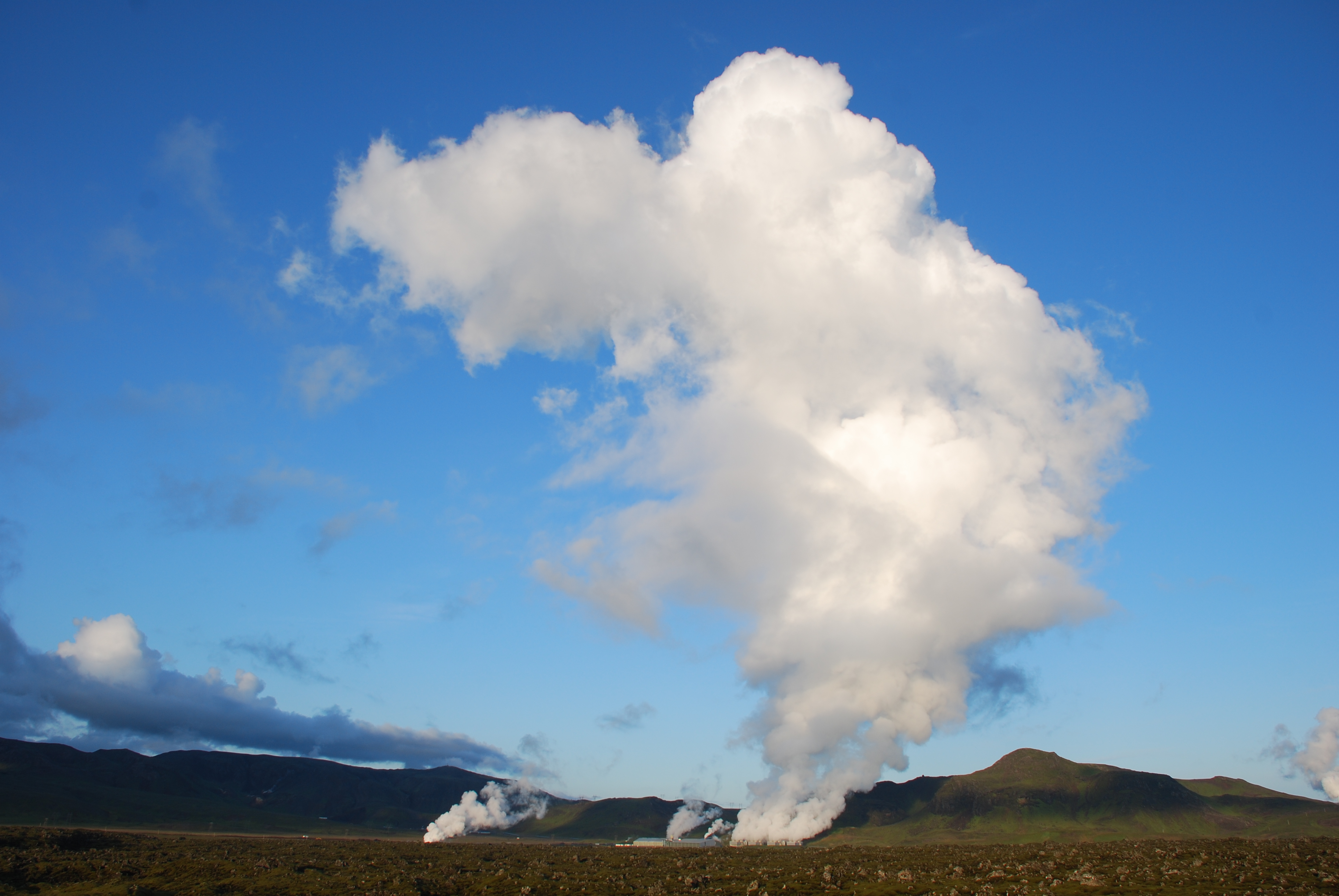 Anthropocumulus generated by Nesjavellir's geothermal plant